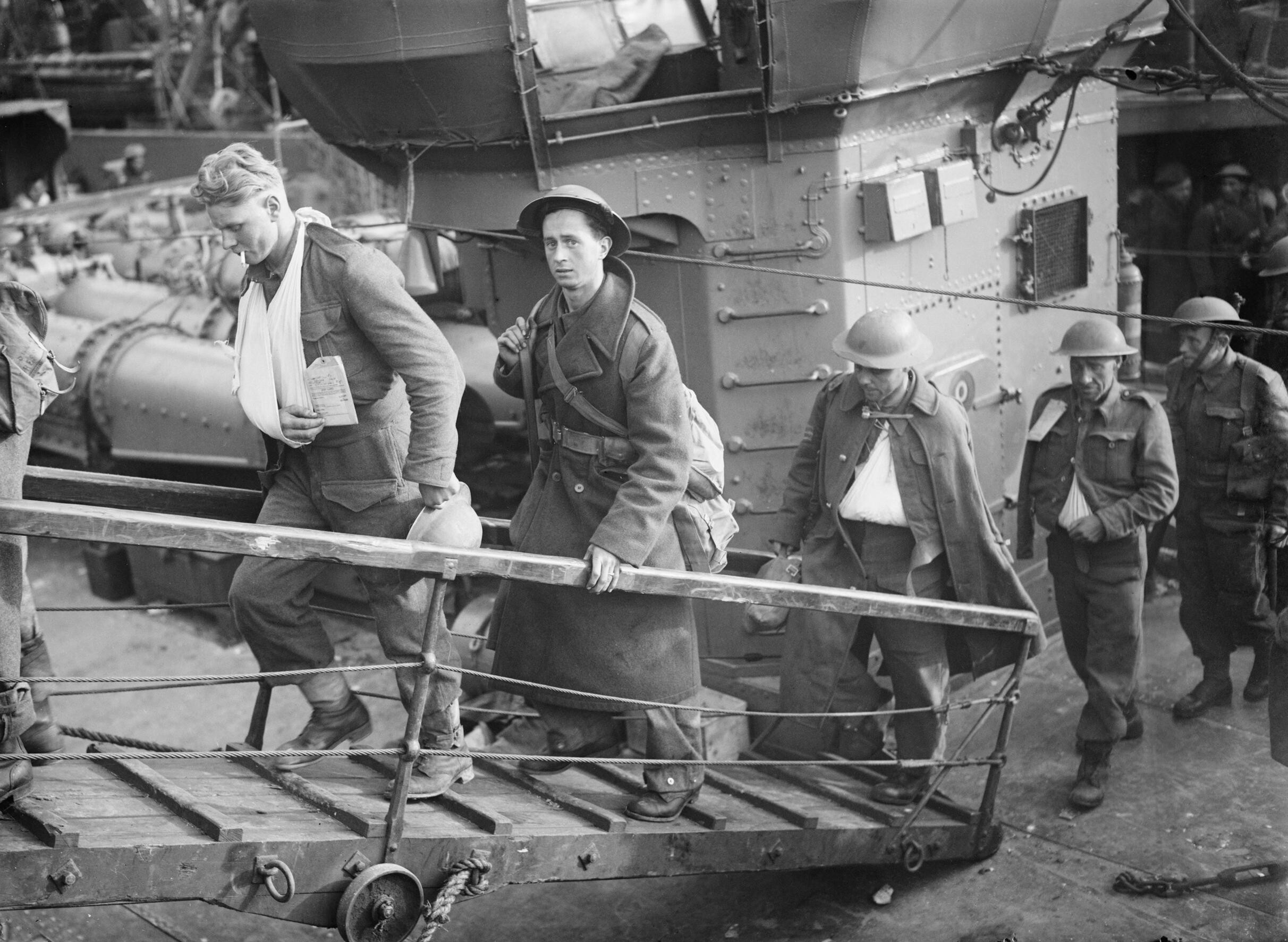 Wounded British soldiers evacuated from Dunkirk make their way up the gangplank from a destroyer at Dover, 31 May 1940. 'Walking wounded' British soldiers make their way up the gangplank from a destroyer, Dover, 31 May 1940.